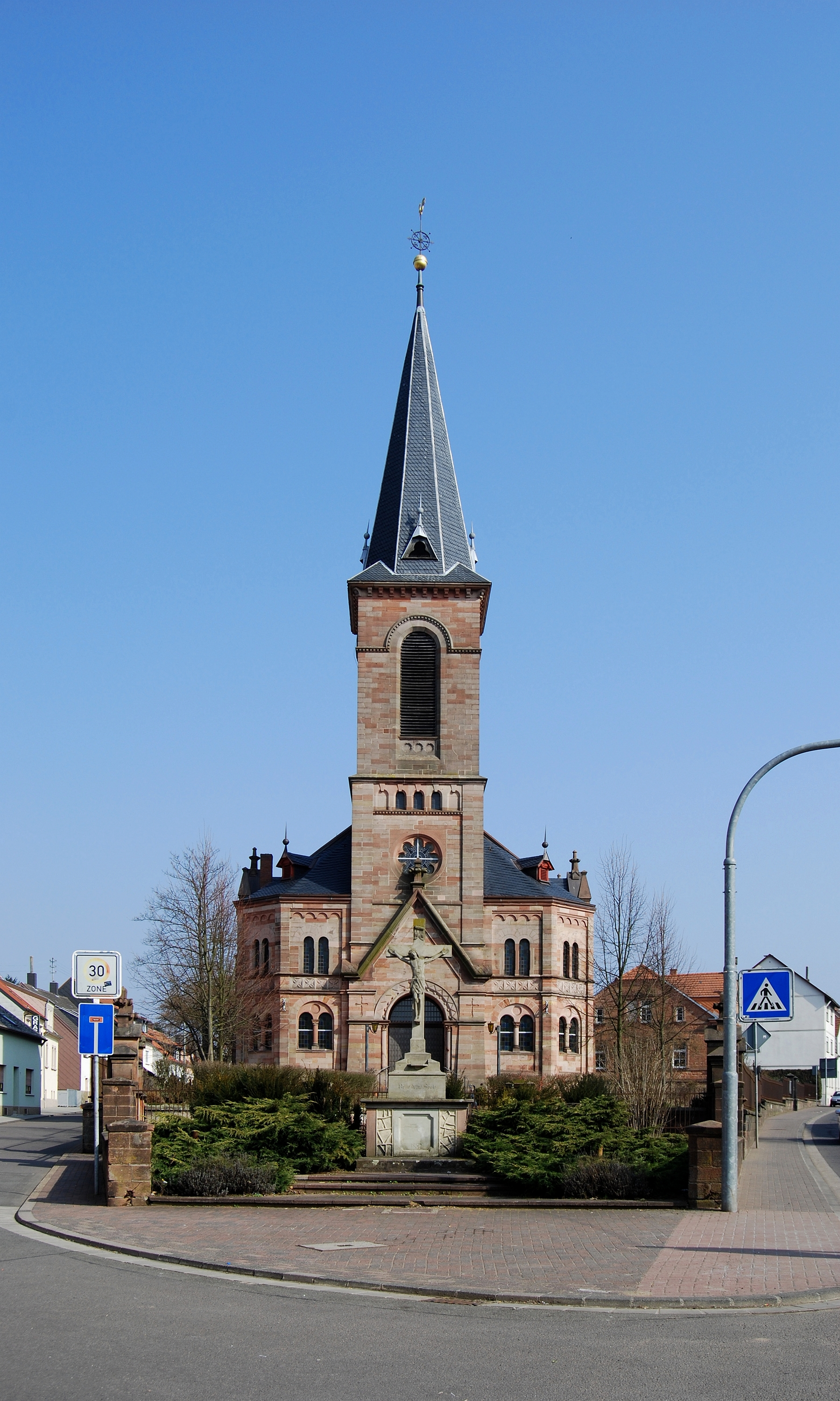 The Protestant church of Bexbach, Saarland.